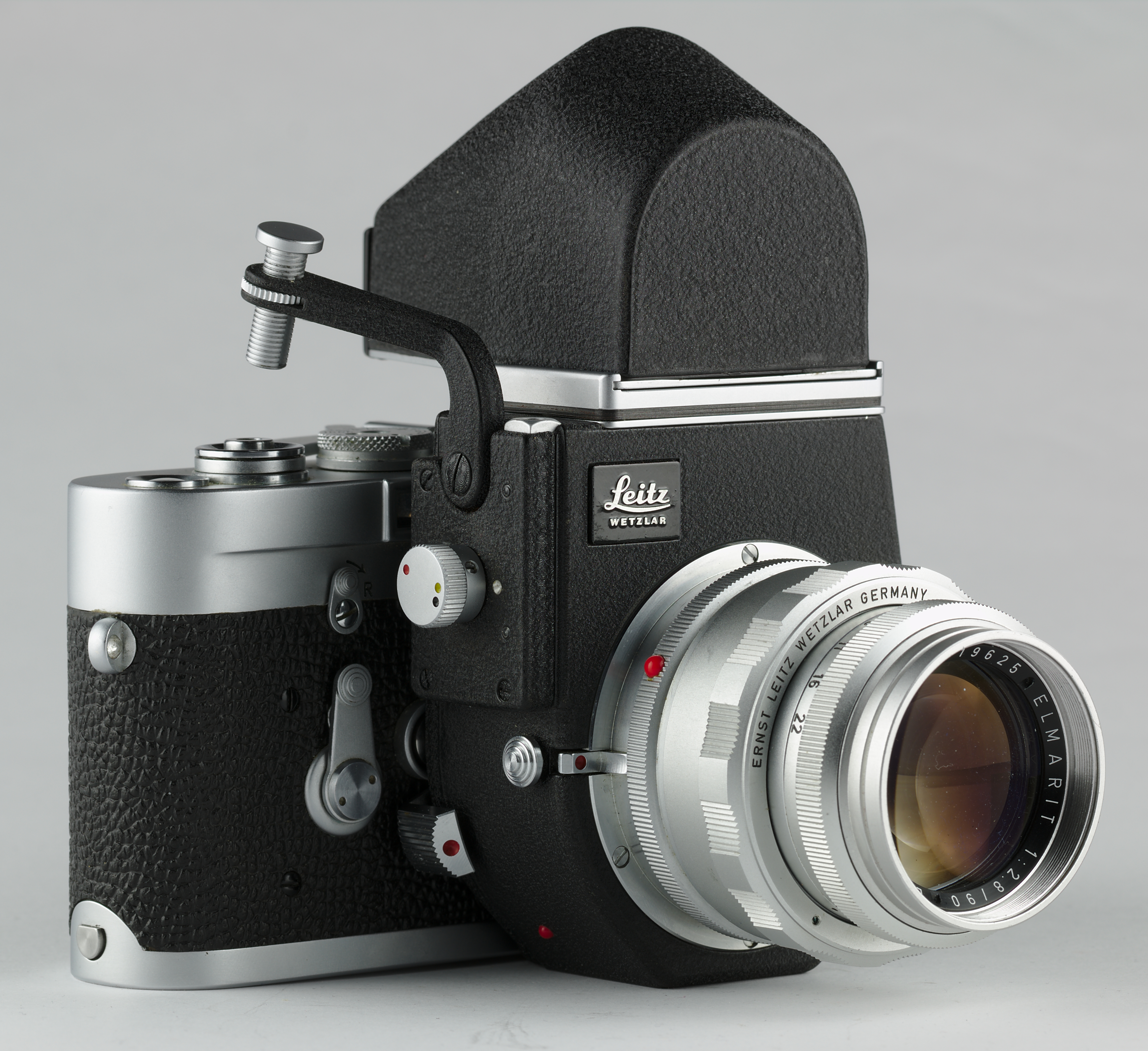 Leica M3 with Visoflex III Lens is a 90mm f2.8